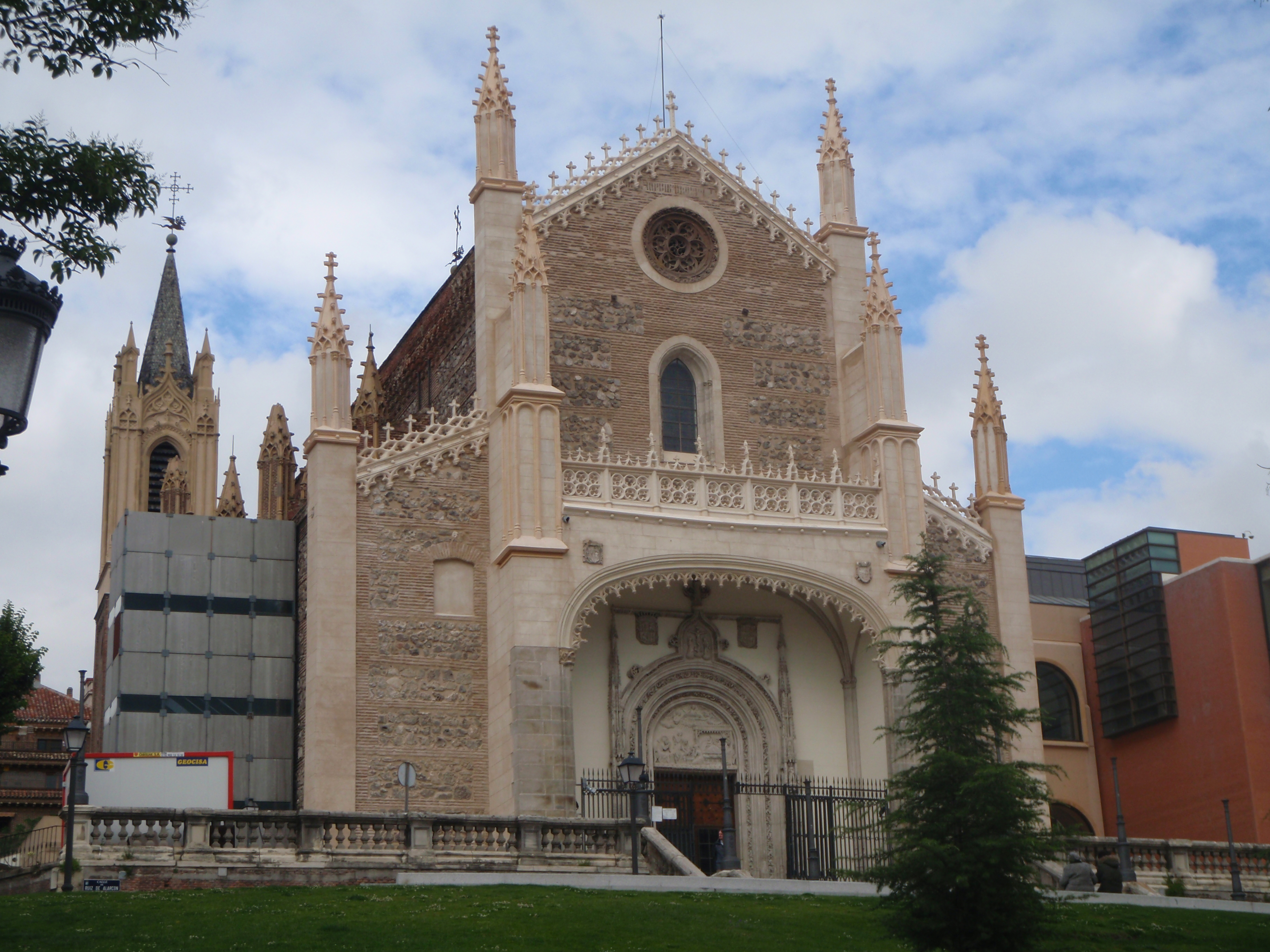 Iglesia Parroquial de San Jerónimo el Real ("Parish Church of St. Jerome"), in Madrid (Spain).